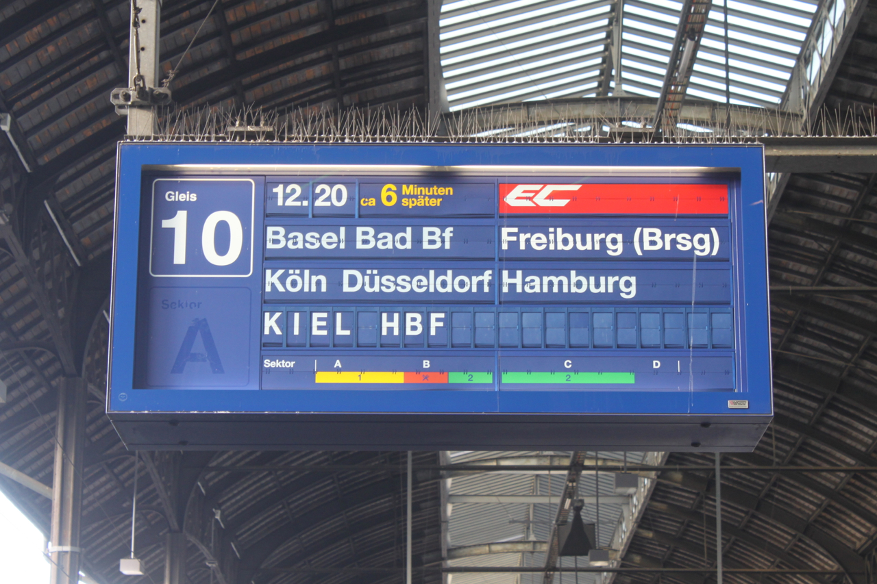 Split-flap display at Basel SBB train station showing EuroCity 2 from Zürich HB to Kiel Hbf.